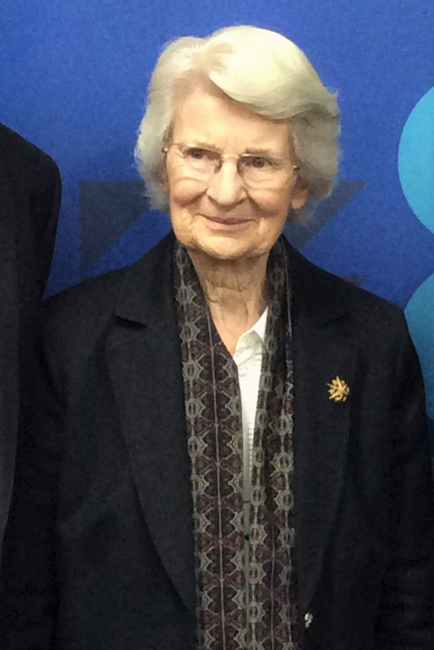 Sylvia Walton AO, FACE